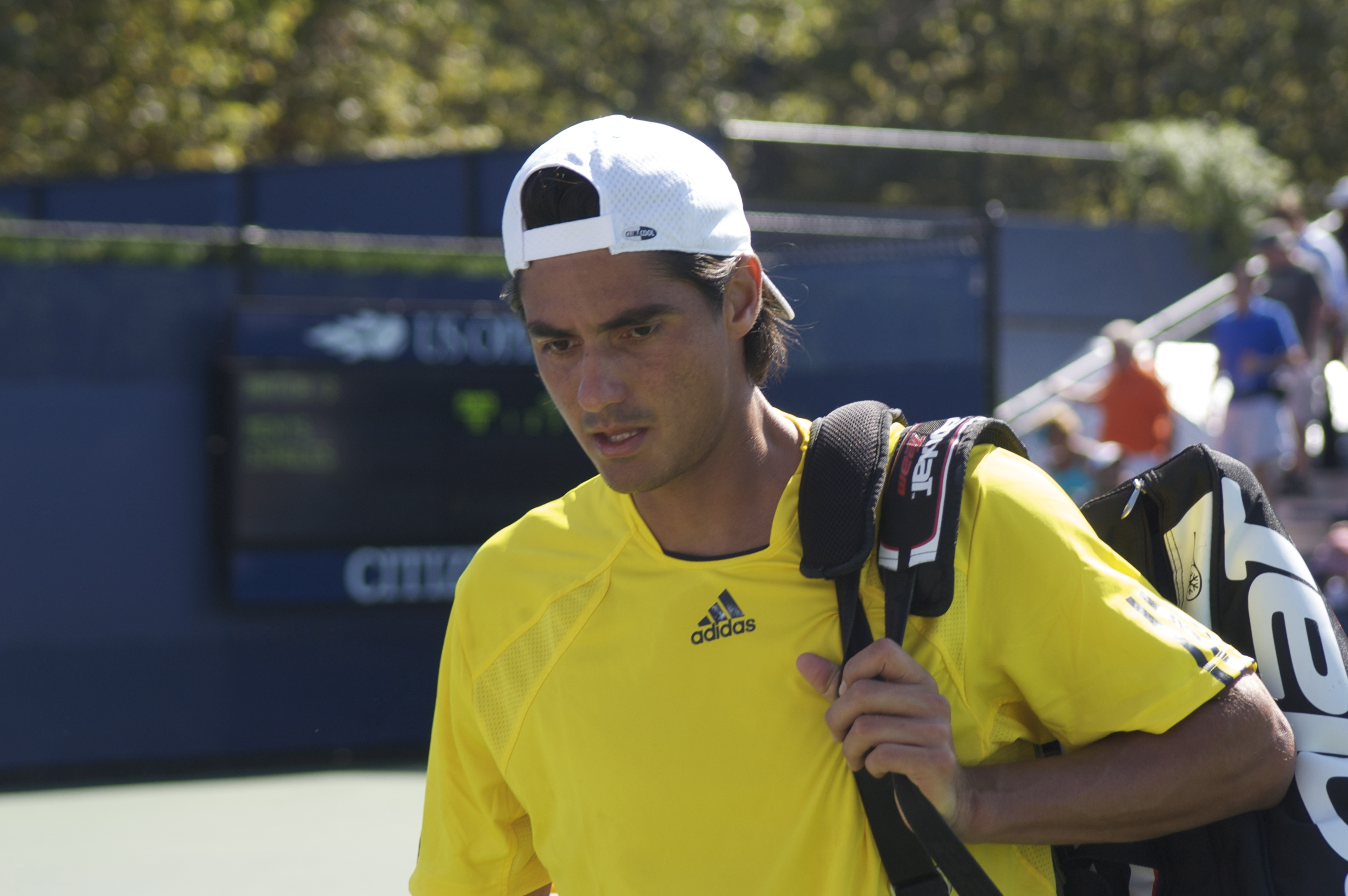 Nicolas Lapentti at the 2008 U.S. Open (tennis)